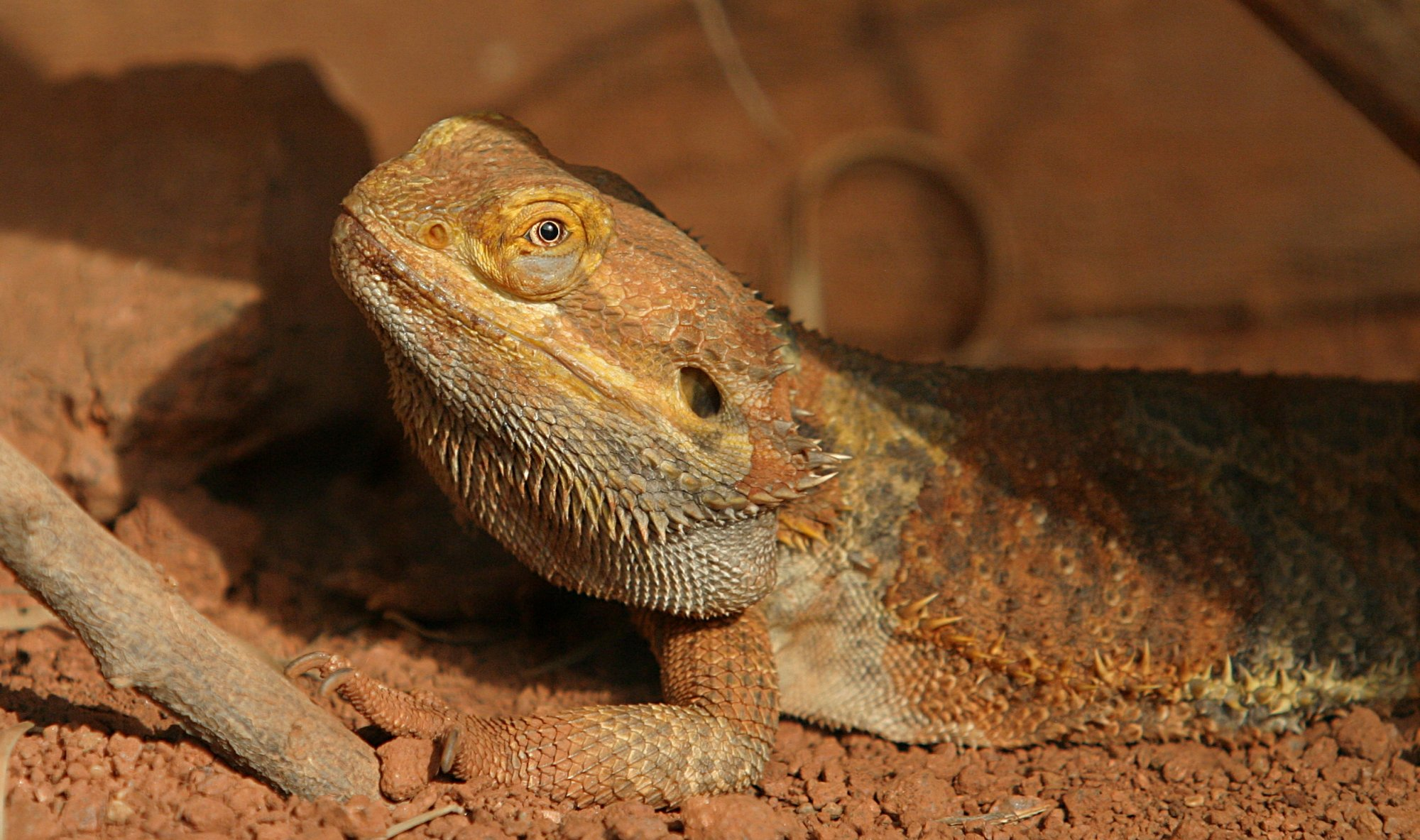 Central Bearded Dragon at the Henry Doorly Zoo in Omaha, Nebraska.